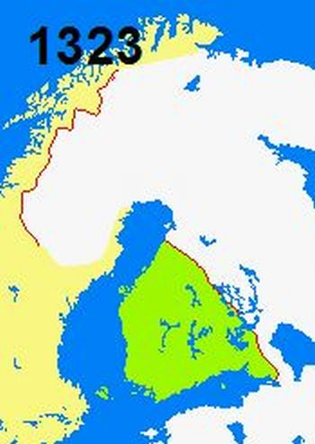 Border changes in Finland 1323